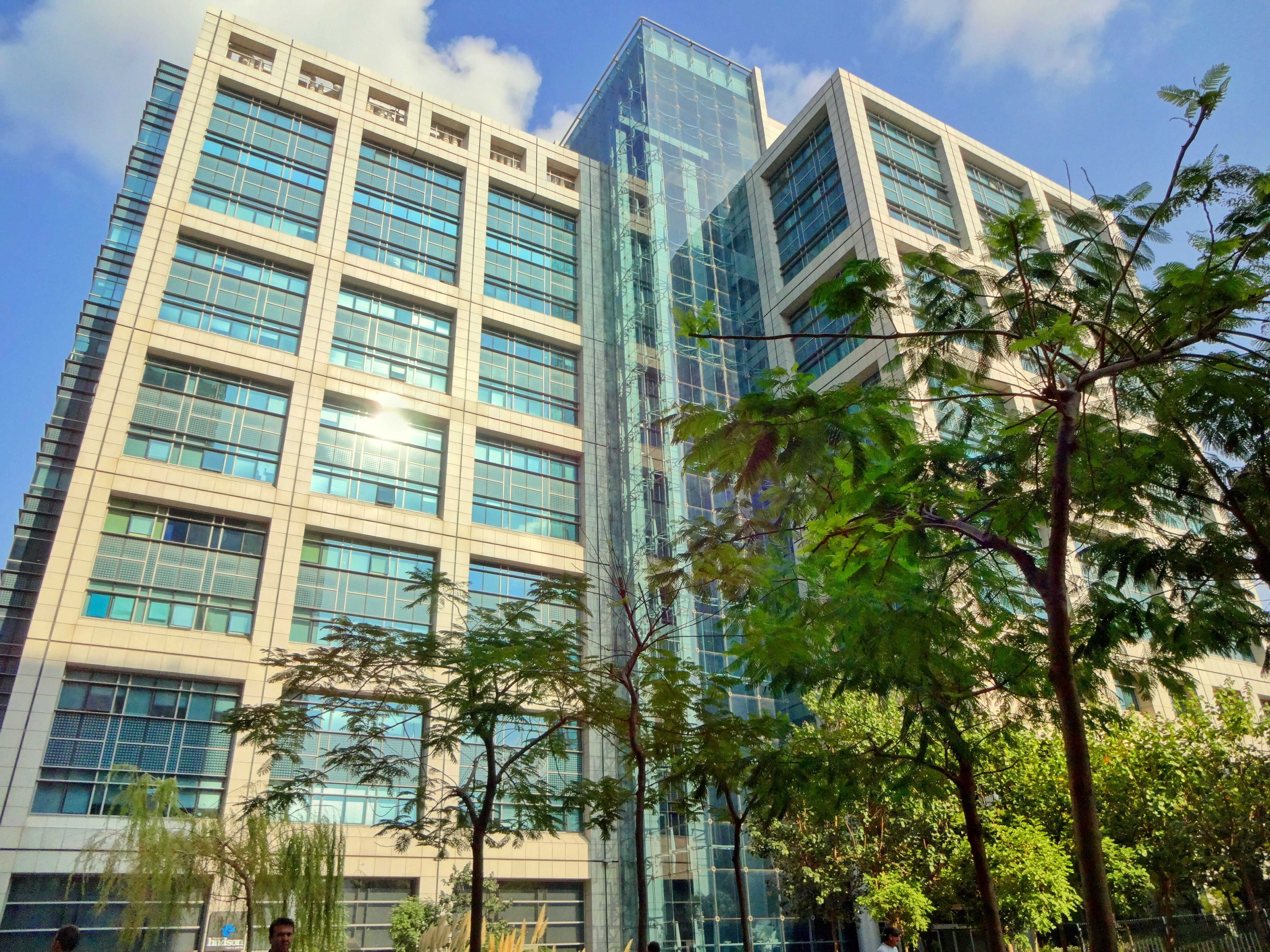 The headquarters of RADWIN Limited.